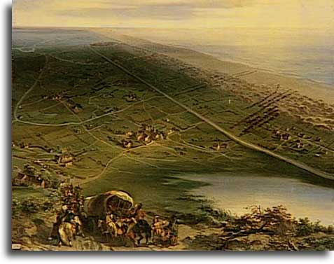 Plano de la Batalla de la Dunas (1658)